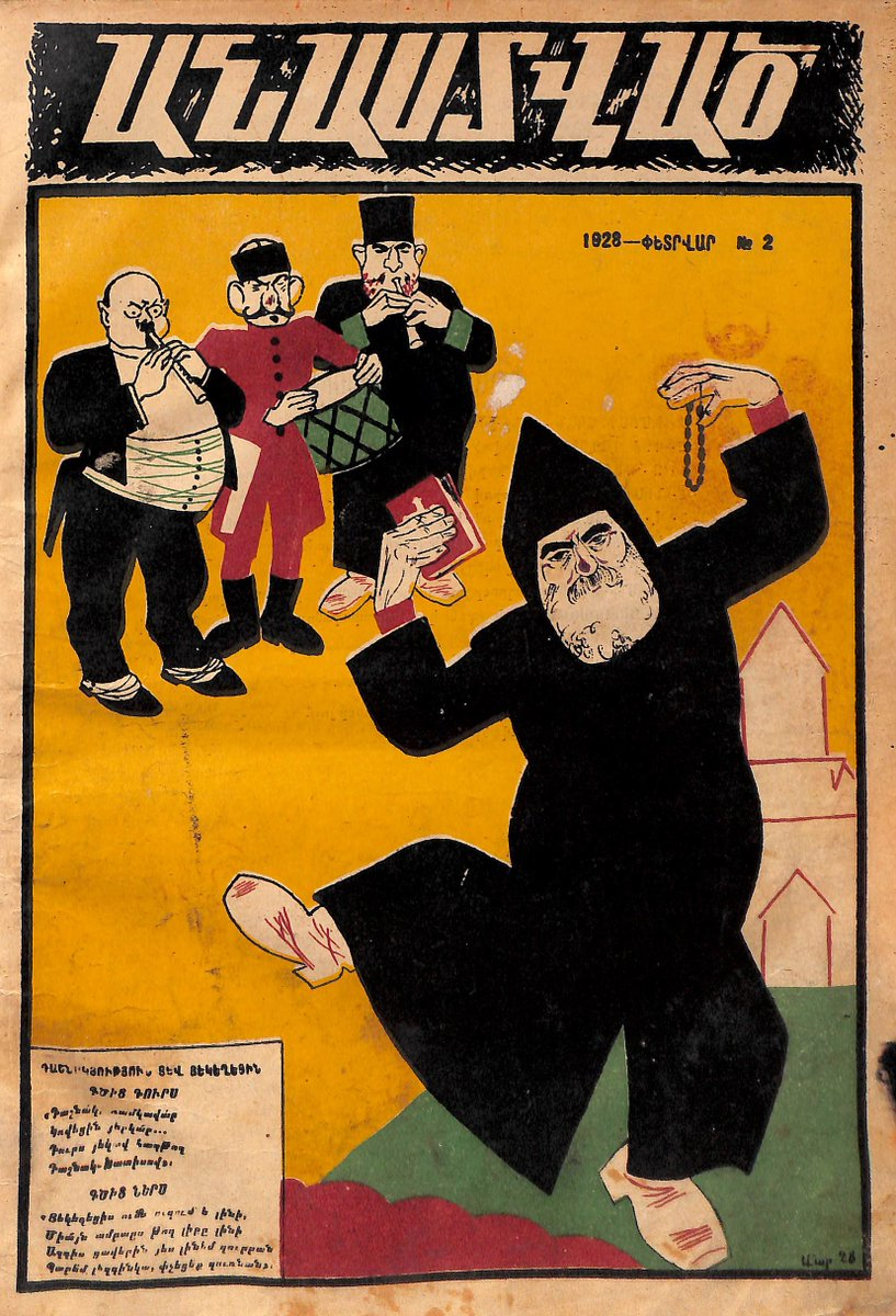 Cover of the magazine «Anastvats» («Անաստված») 1928. № 2